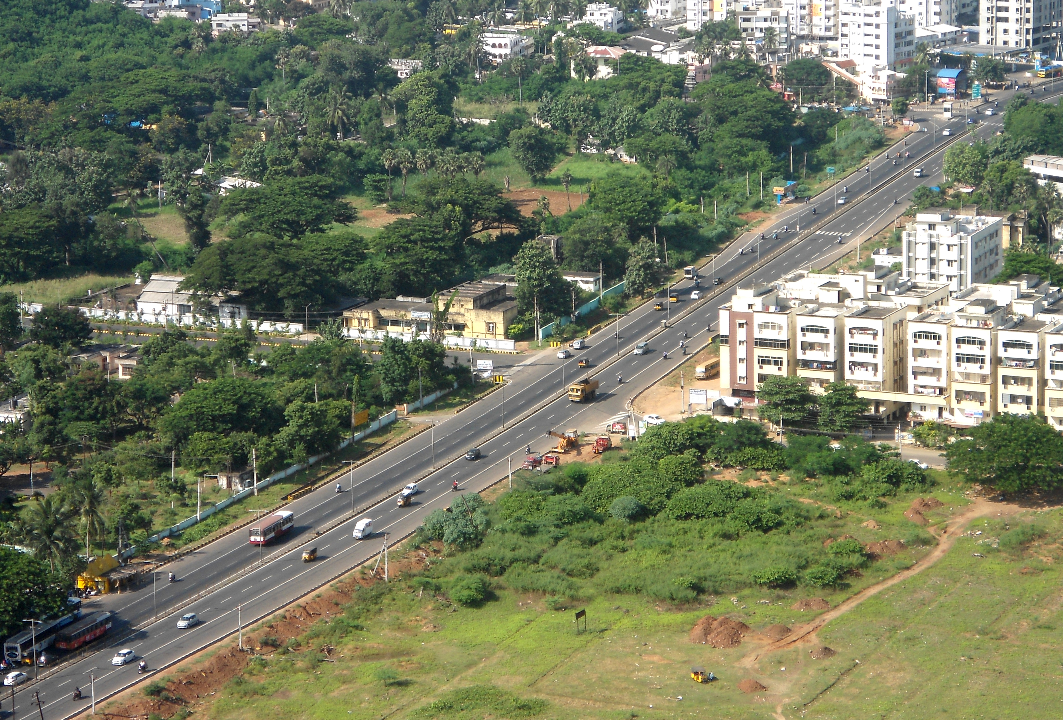 National Highway 16 (old NH 5) near Hanumanthawaka in Visakhapatnam